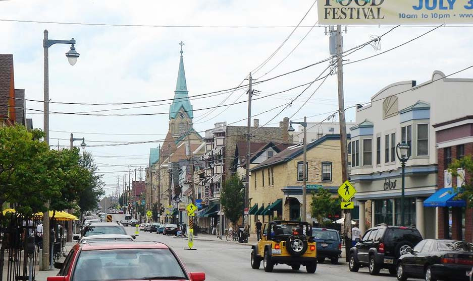 Brady Street, Milwuakee, Wisconsin in 2007. East Brady Street Historic District, National Registered Historic Place.